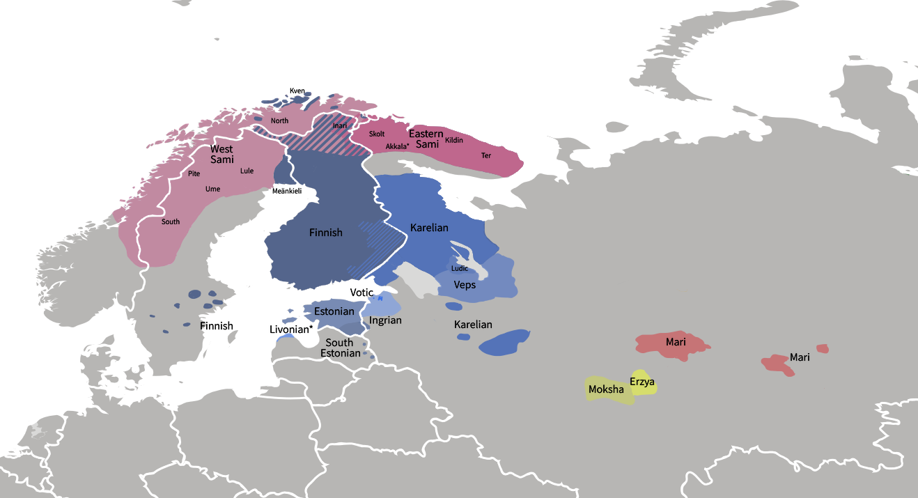 The Finno-Volgaic languages are a hypothetical branch of the Uralic Language family, it includes the Finnic, Sami, Mordvinic and Mari language families.